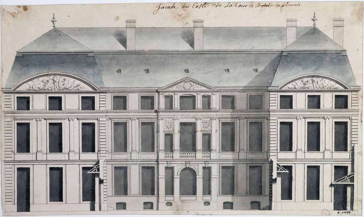 Hôtel de Louvois, view of the front building.